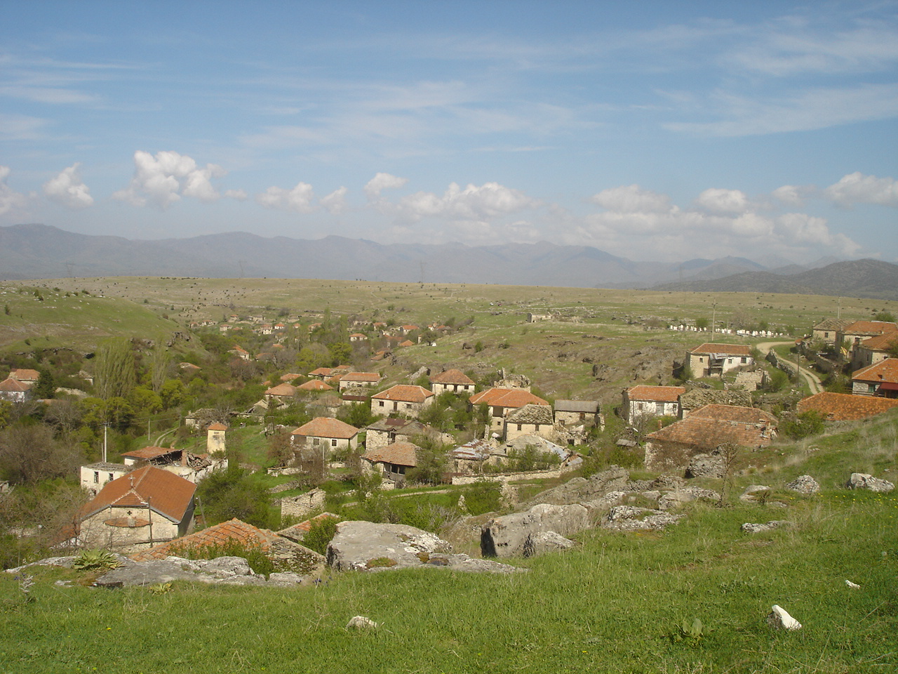 village of Beshishte in Mariovo region, Macedonia